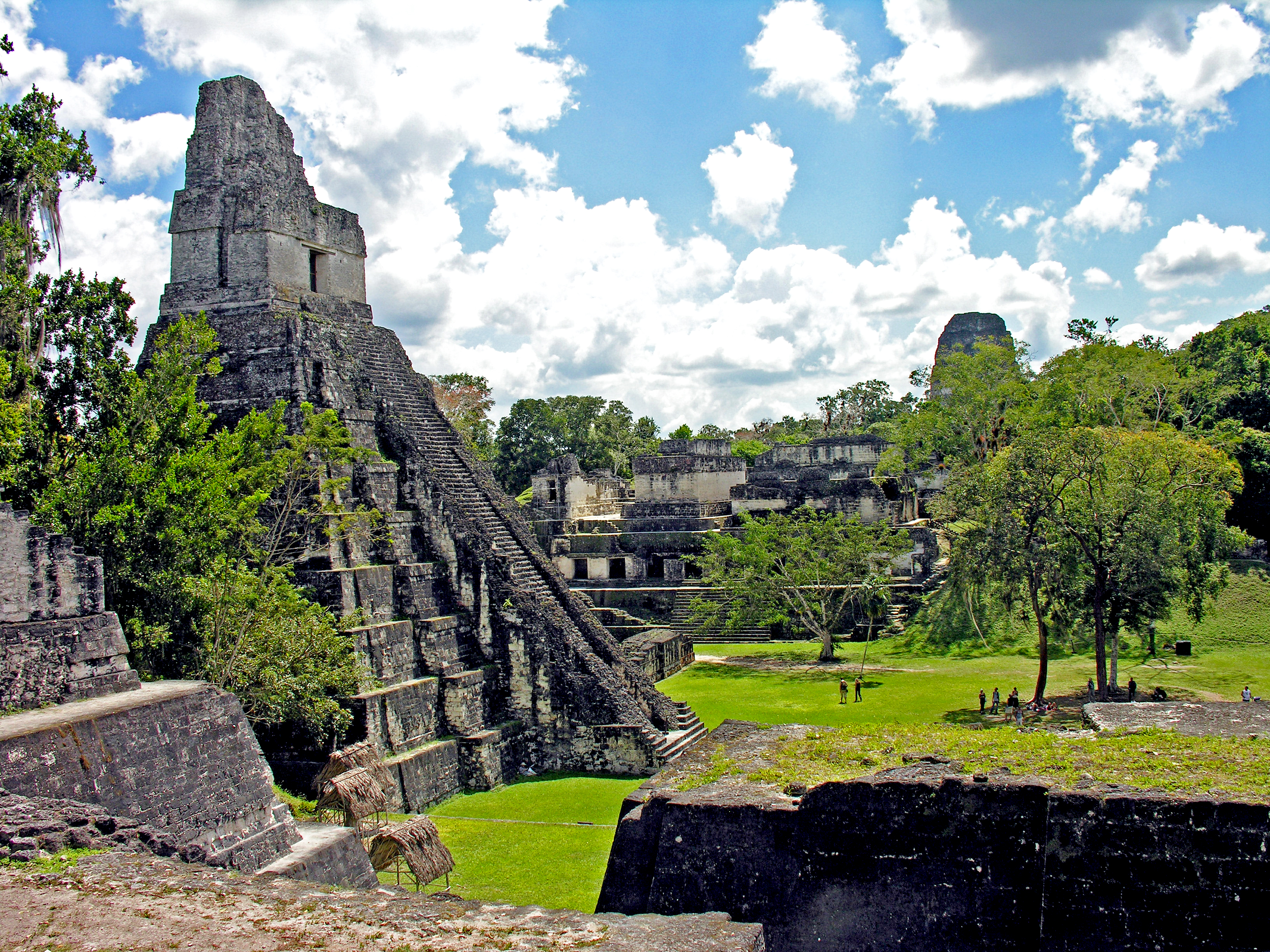 Looking at Temple 1 with the Central Acropolis buildings in back and Templw V rising above the trees. Tikal, Guatemala